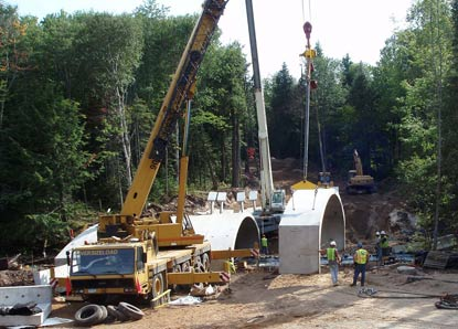 Cranes place sections of con-span for the new bridge over the Hurricane River along Alger County Road H-58